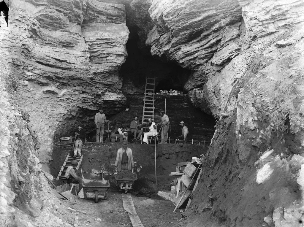 Photo from the excavations in 1891 of the Stone Age settlement in the cave of Stora Förvar. It was excavated in 1888-1893, by Lars Kolmodin sitting dressed in white in the middle of the picture and by Hjalmar Stolpe who took the photograph. Stora Förvar is situated on Stora Karlsö island west of the island of Gotland.